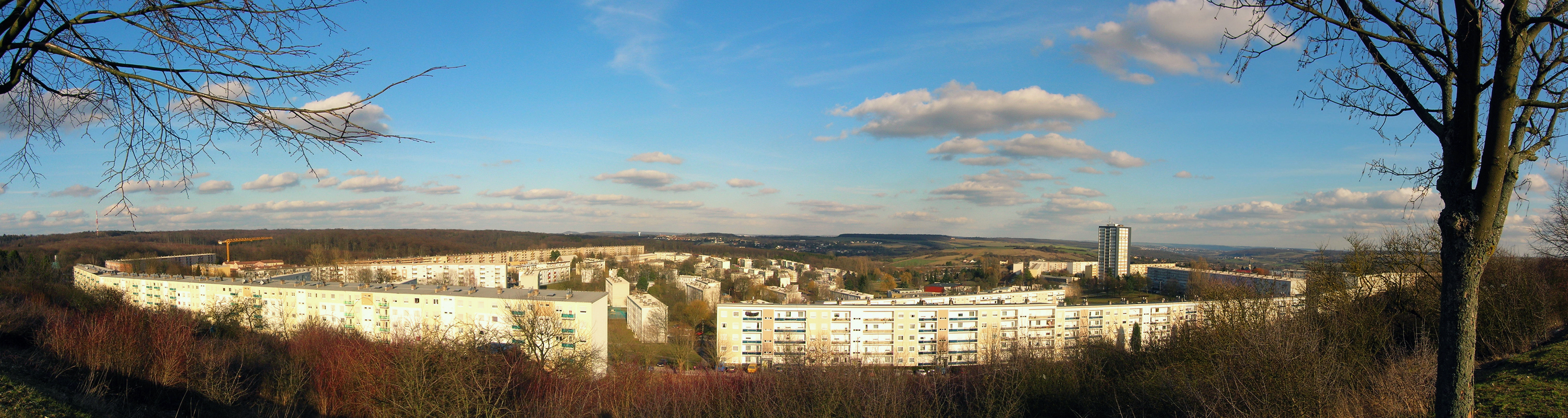 Panoramic view of Behren-lès-Forbach, Lorraine.